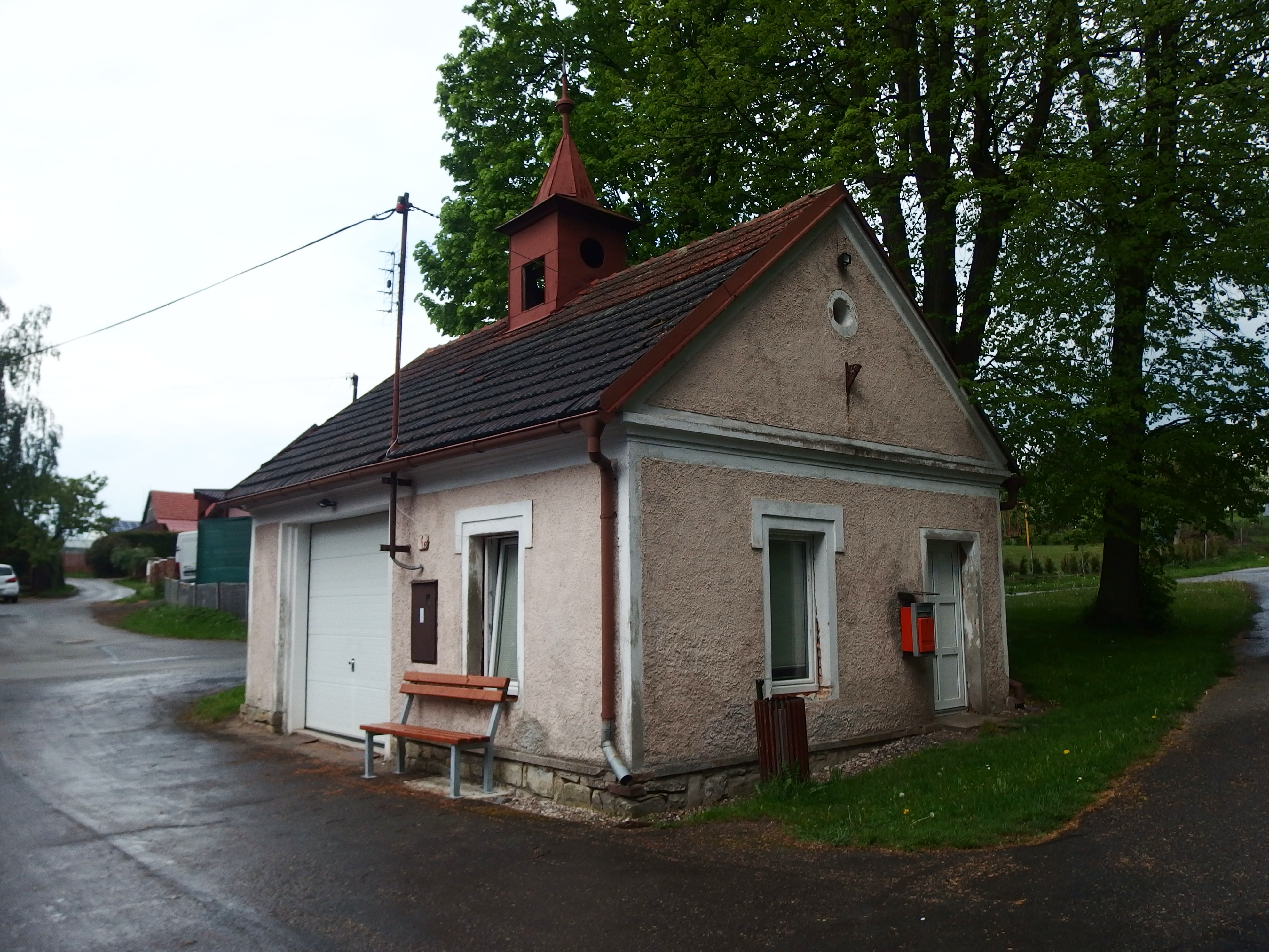 Podlesí, Ústí nad Orlicí District, Czech Republic, part Němčí.